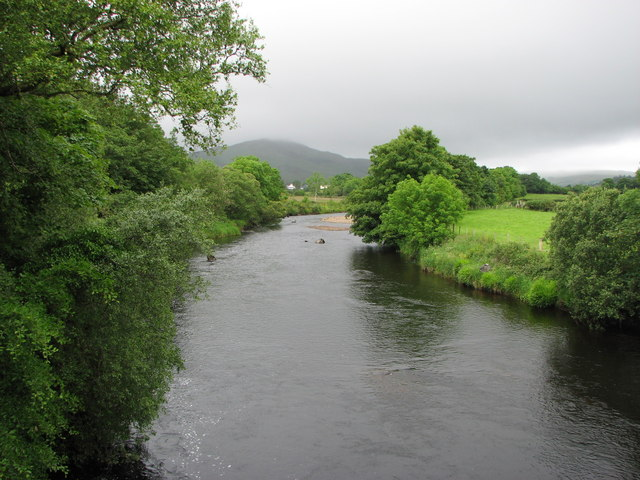 River Finn Looking west from the Glenmore Bridge, County Donegal. There were several anglers all along the river which was in peak condition for fishing.